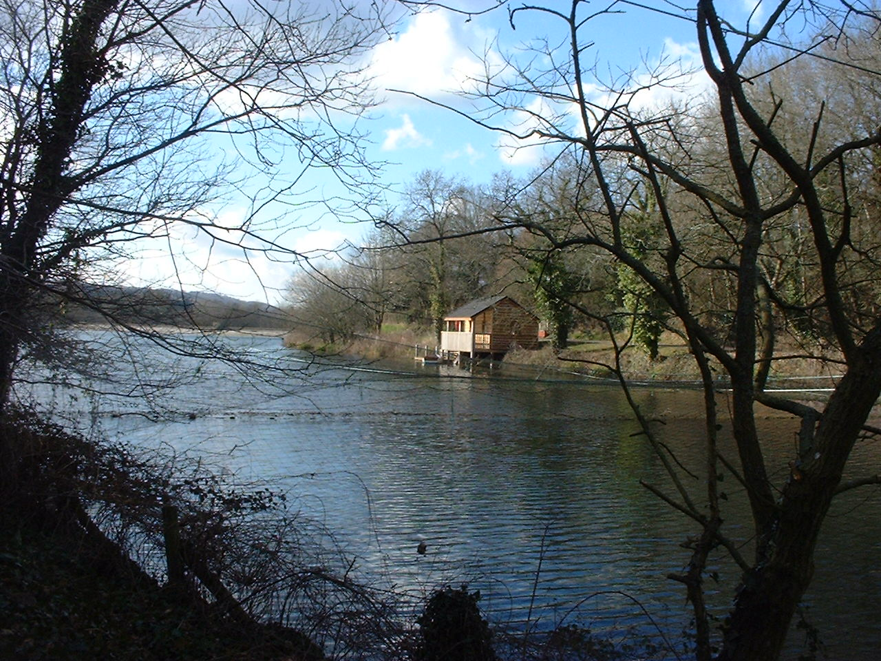 Lower pond at Litton resovoir. Taken by Rod Ward 4th March 2006